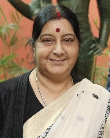 Indian Foreign Minister Sushma Swaraj is a fierce proponent for her country, and it was great to have met her. Together, we discussed security and prosperity for India, and how we stand together as essential friends and allies across the Indo-Pacific in a changing world.